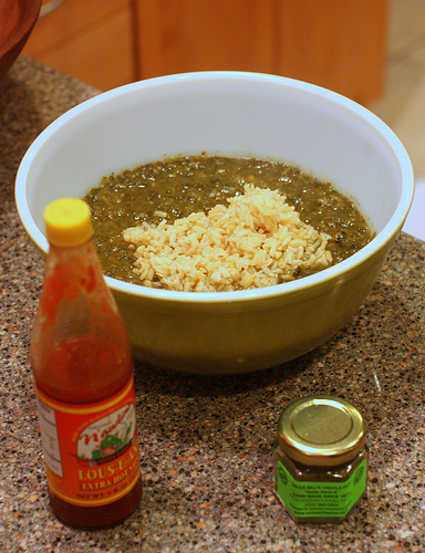 Gumbo Z'Herbes with Louisiana Hot Sauce and File Powder.